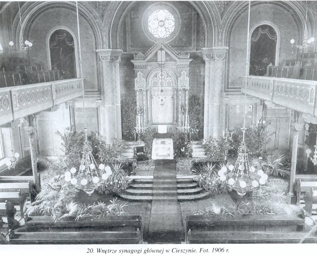 Synagogue in Cieszyn